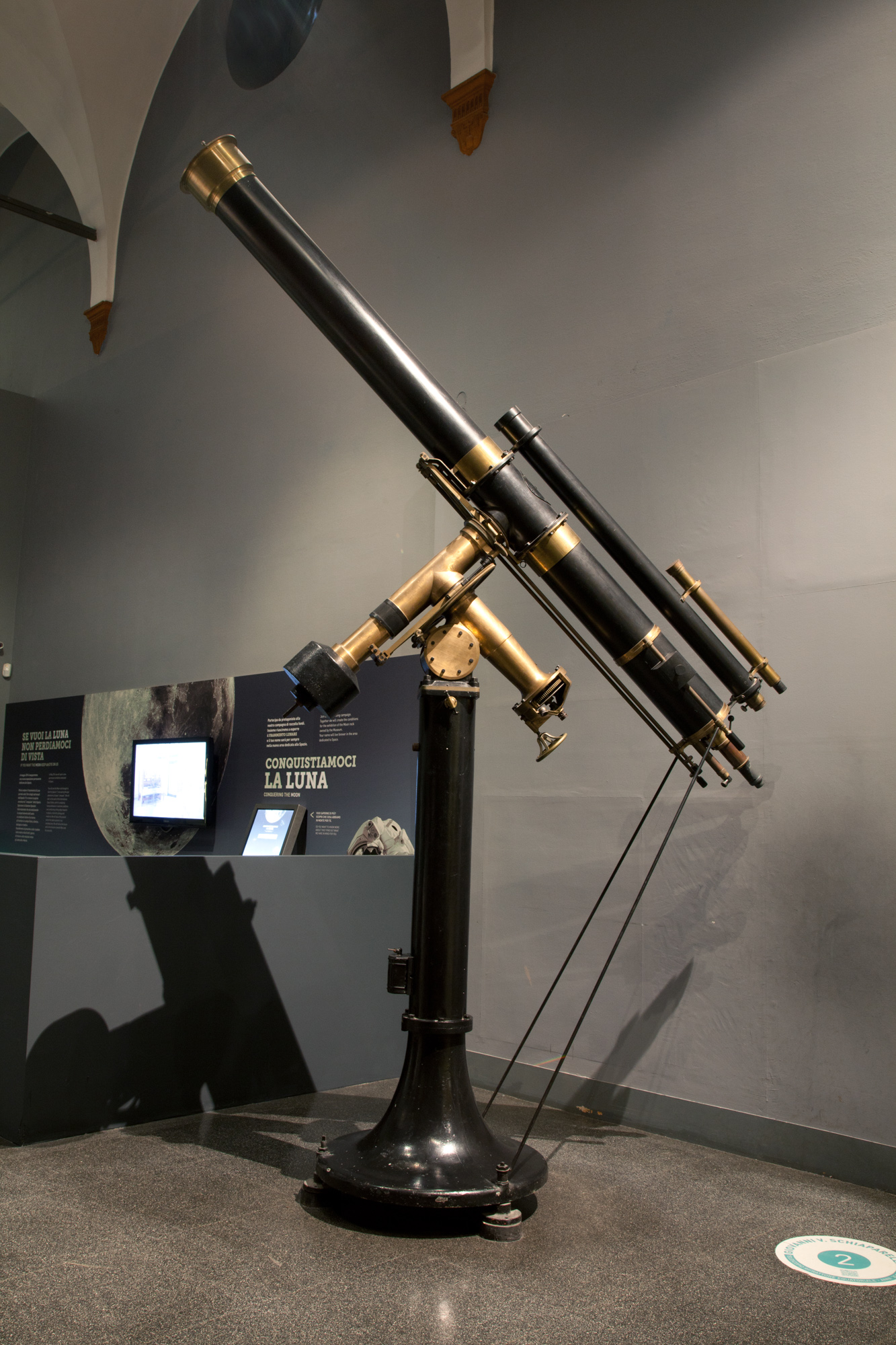 Telescopio rifrattore a montatura equatoriale classica, prima metà sec. XX, esposto al Museo nazionale della scienza e della tecnologia Leonardo da Vinci, Milano.